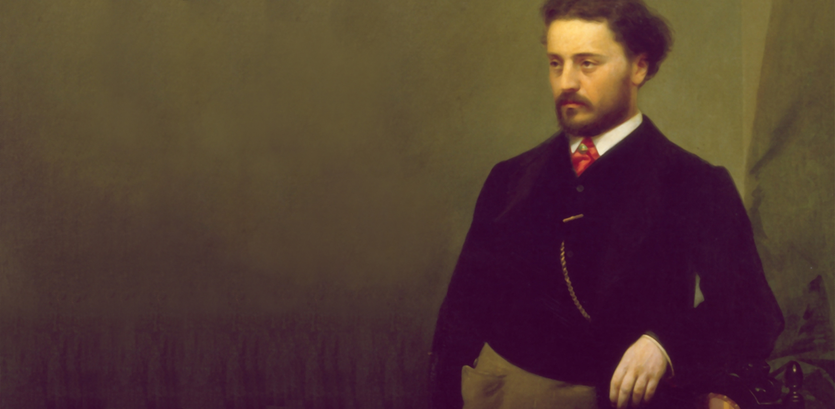 Portait of Giuseppe Mengoni, architect